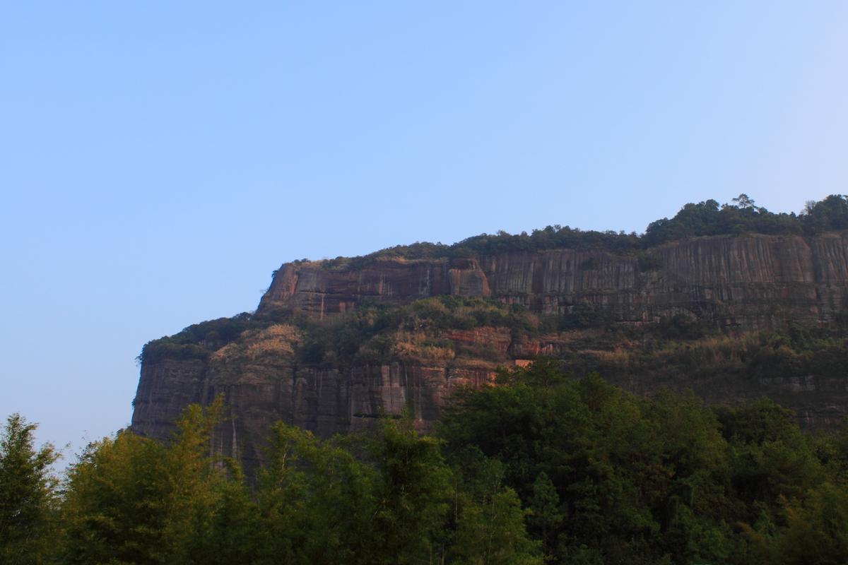 Danxia